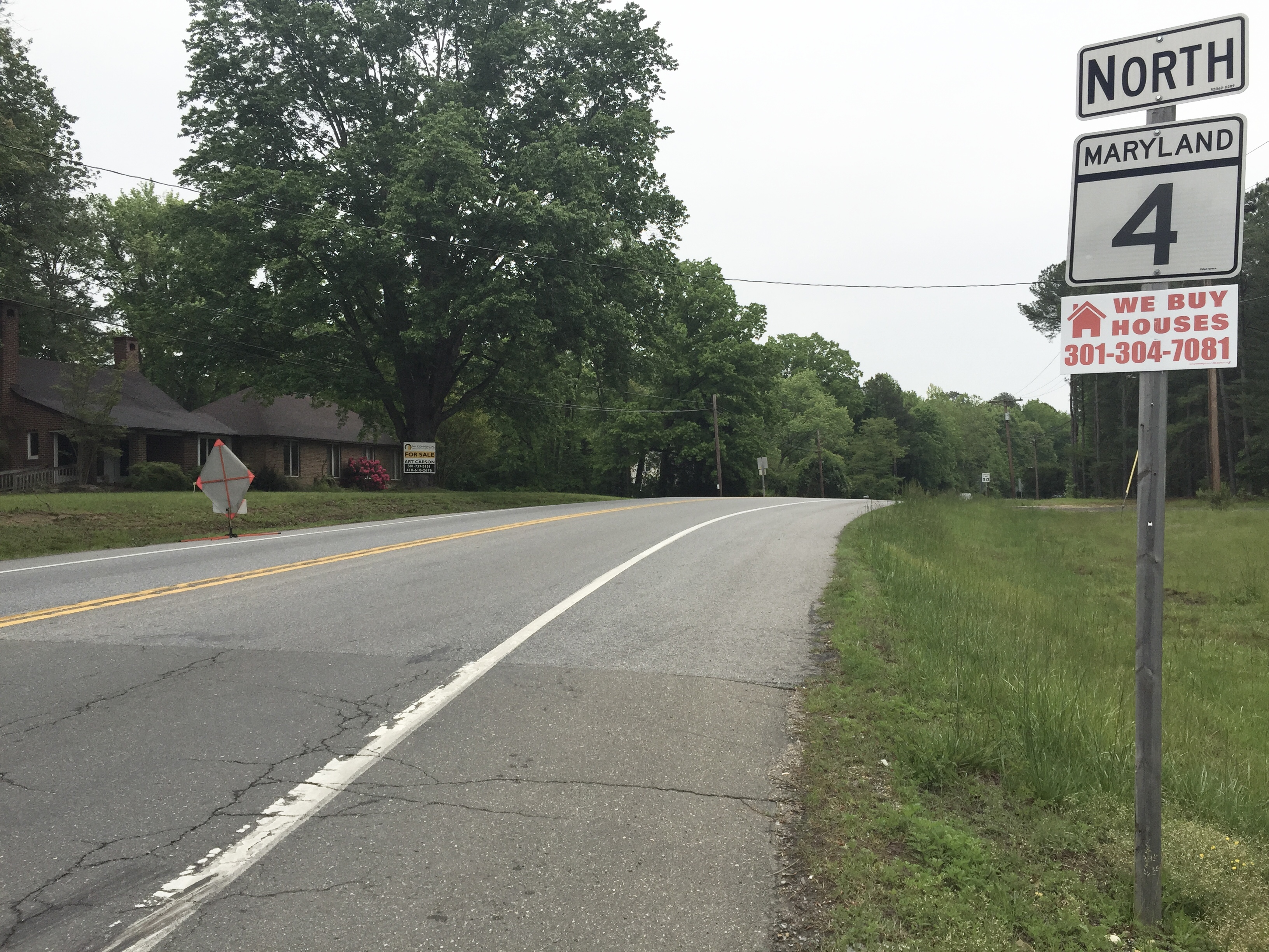 View north along Saint Andrews Church Road (Maryland State Route 4) near Point Lookout Road (Maryland State Route 5) near Leonardtown in St. Mary's County, Maryland